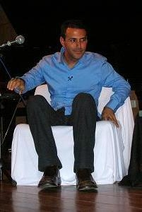 Shai Tubali channeling the Buddha from Orion